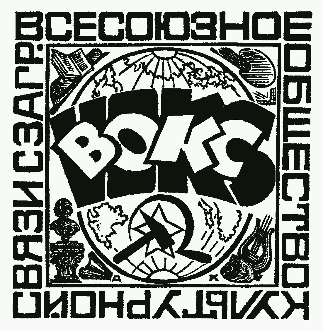 Logo of the All-Union Society for Cultural Relations with Foreign Countries (VOKS). Artist unknown. Logo from Weekly News Bulletin published by VOKS, Jan. 28, 1928, back cover.